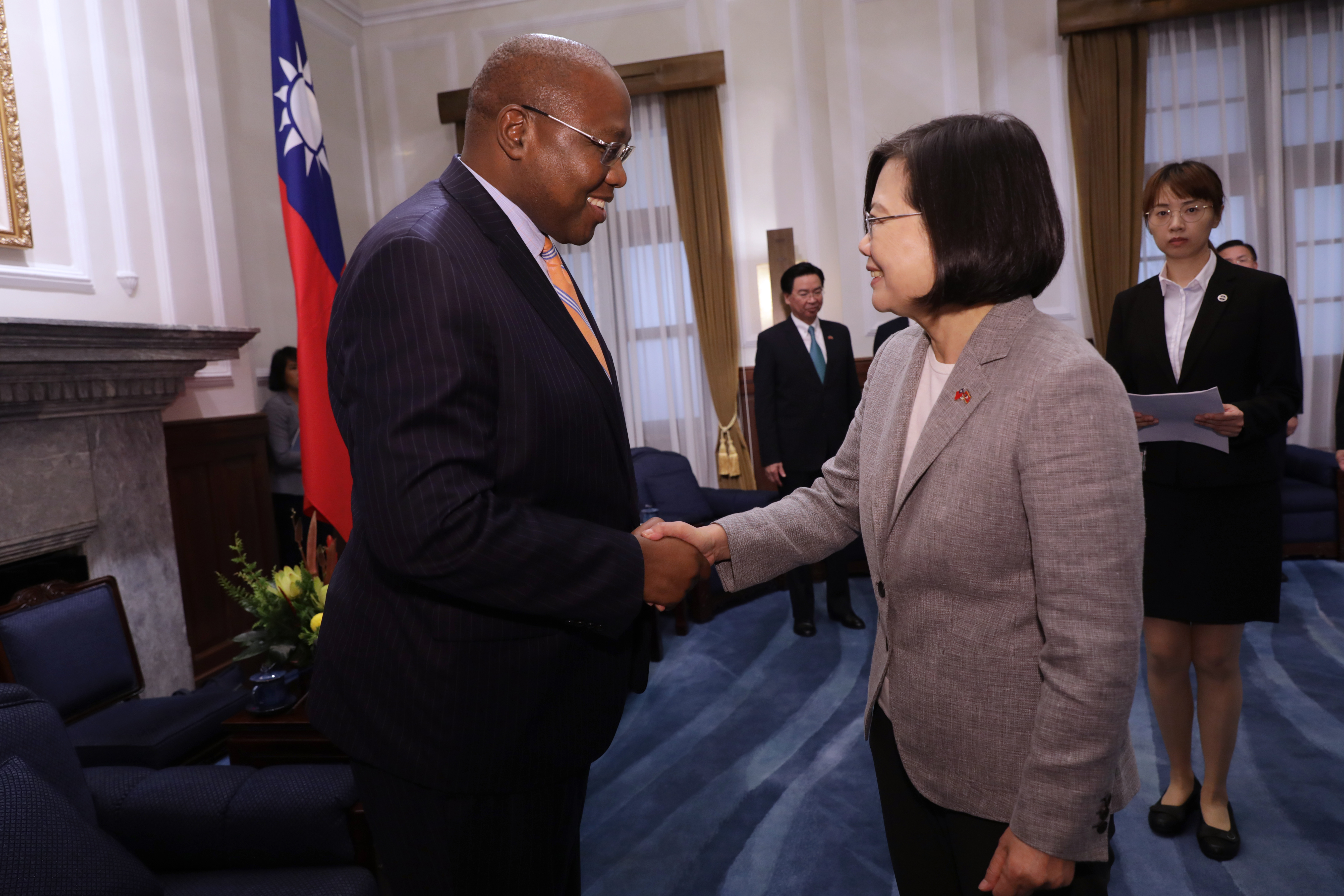 Official Photo by Simon Liu / Office of the President